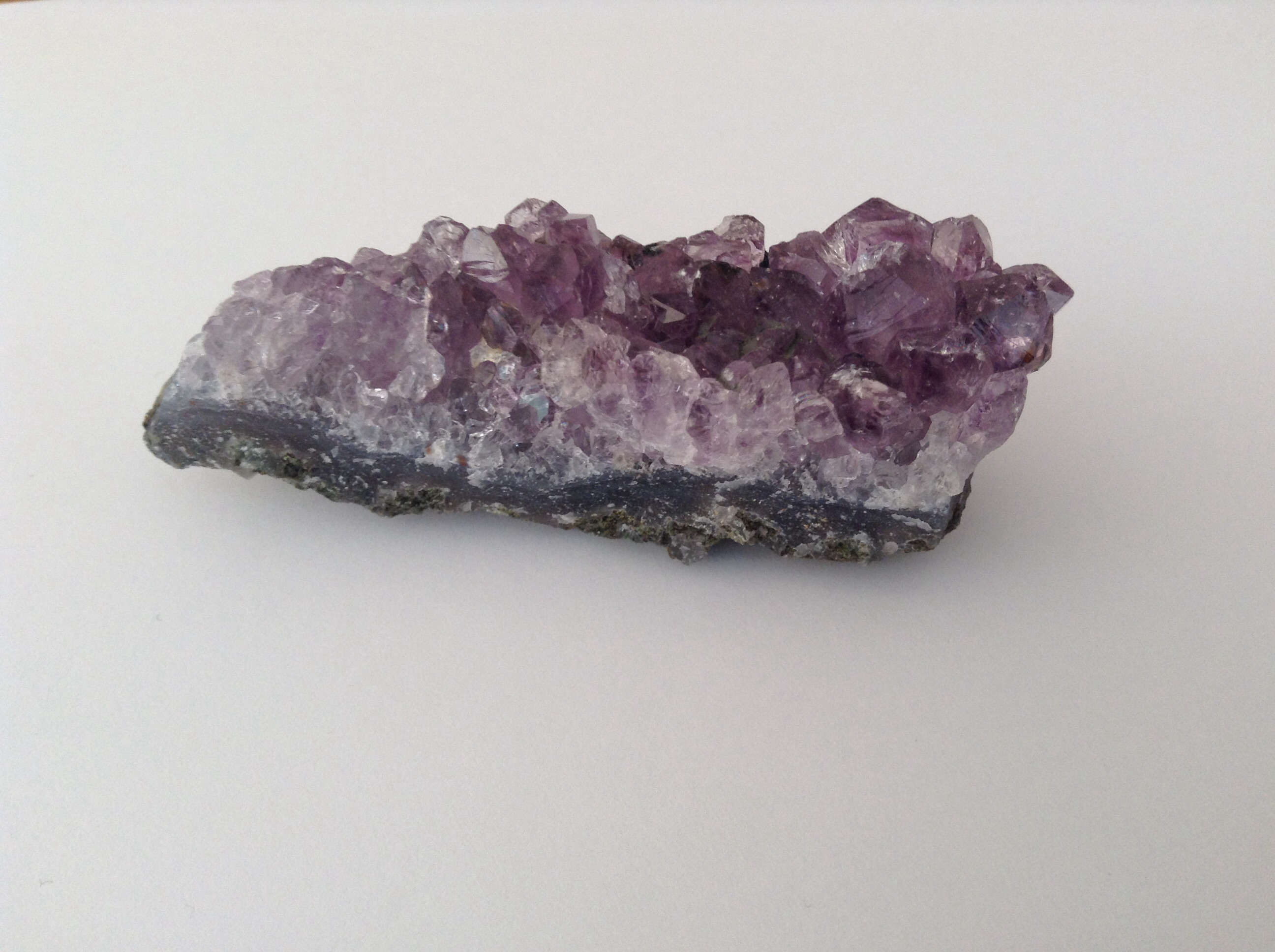 Amethyst as it appears as a natural rock